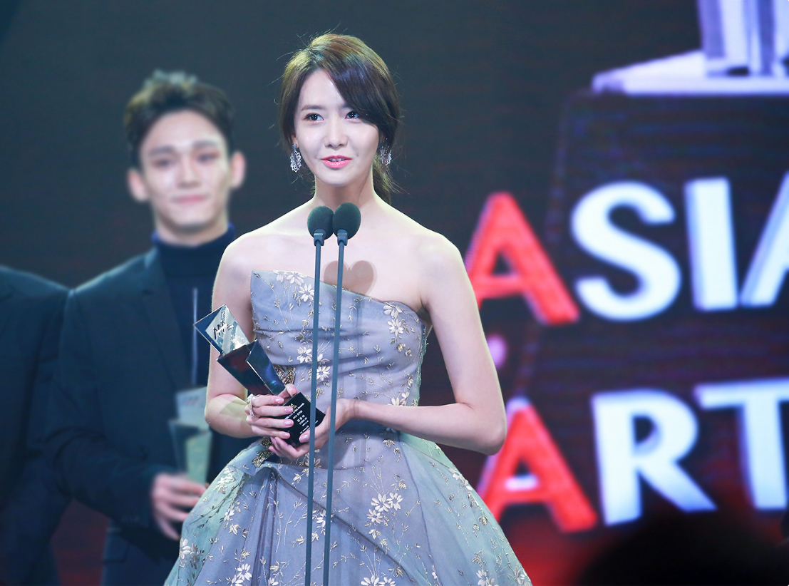 Im Yoon-Ah at the Asia Artists Awards in November 2016